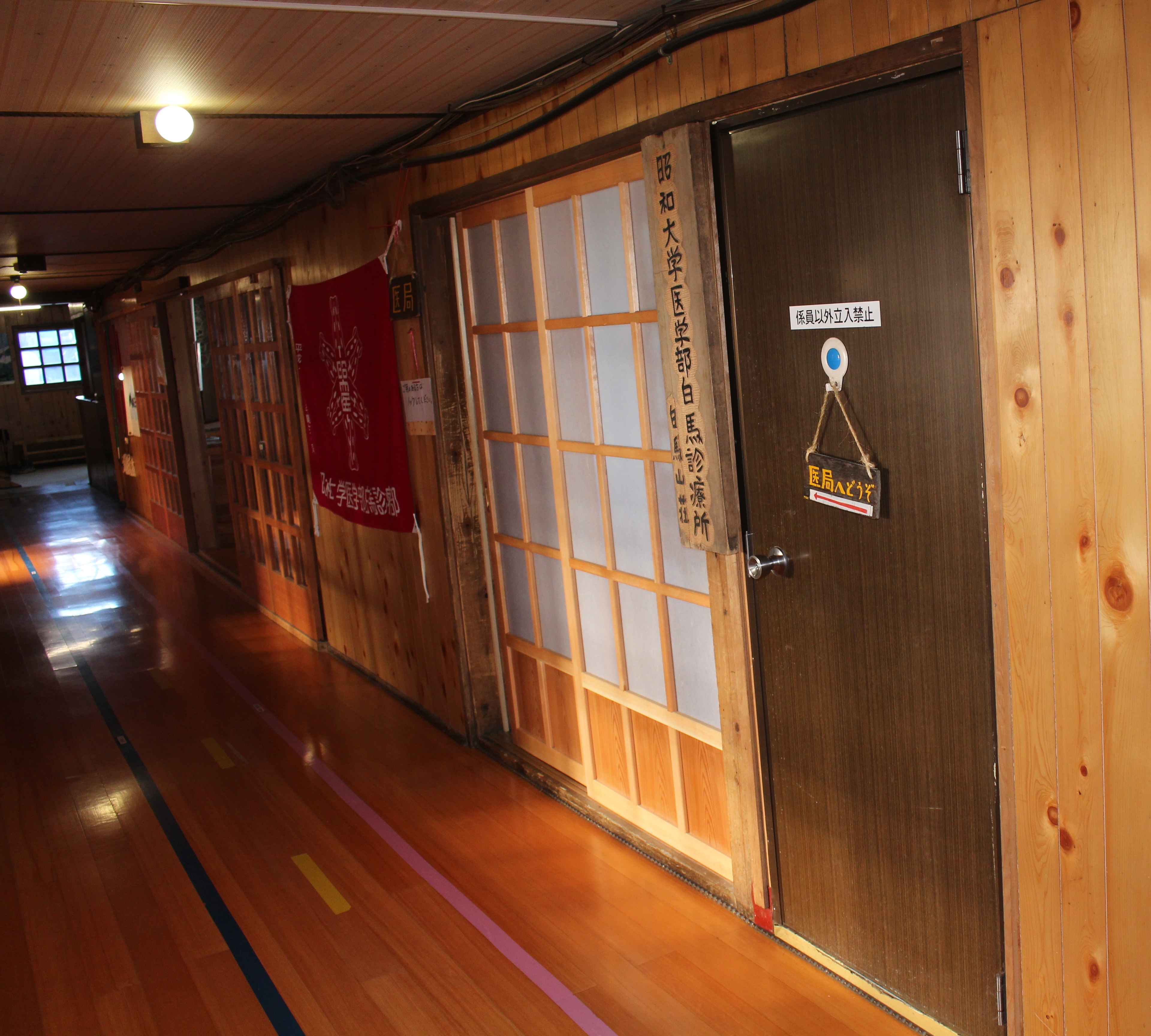 Clinic of Showa University in Hakuba Sanso, iMount Shirouma, Hakuba, Nagano prefecture, Japan.